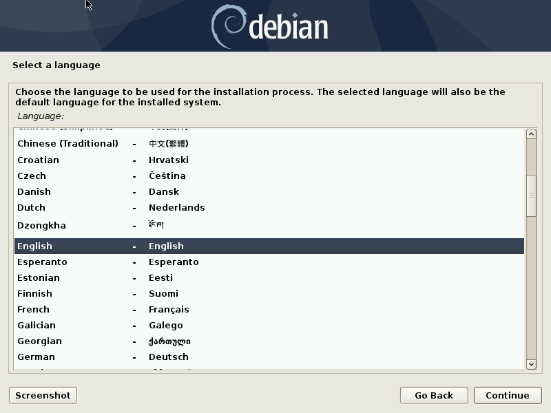 This was taken in a virtual system.